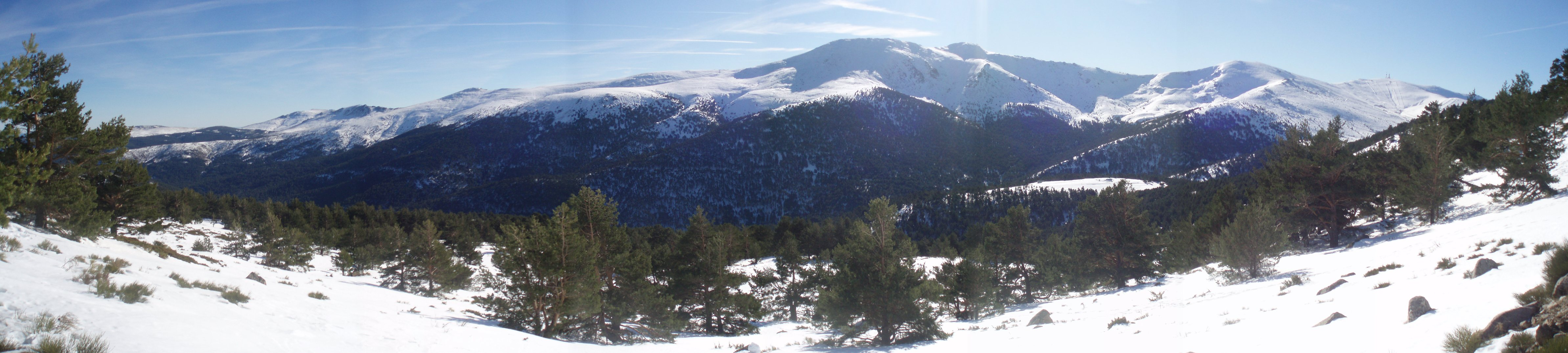 North face of Cuerda Larga in Winter (Guadarrama mountain range, Central Spain).